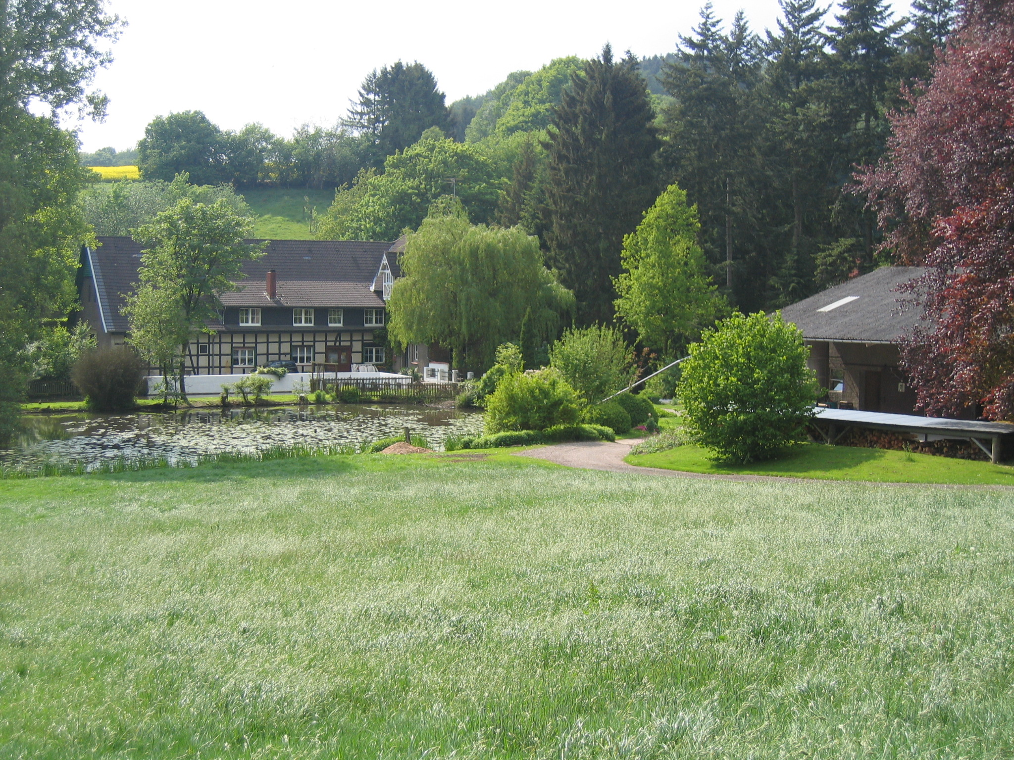 Famhouse and former watermill in Rödinghausen, District of Herford, North Rhine-Westphalia, Germany.